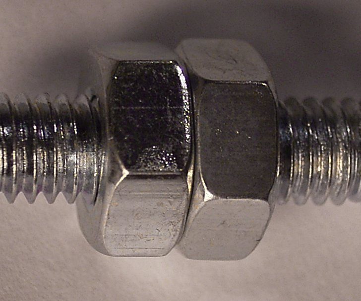 Counter nut on threaded rod (M4)